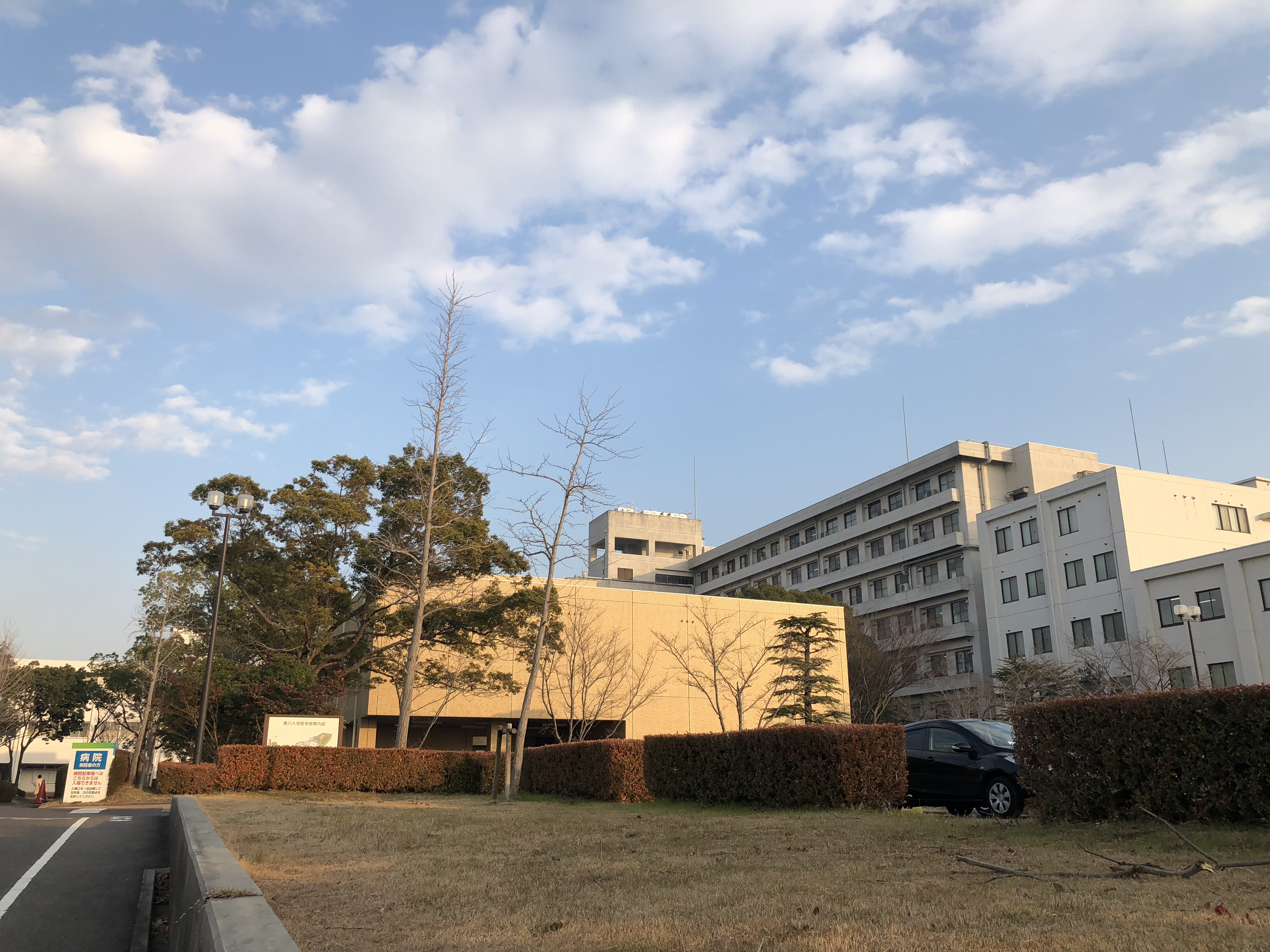 Faculty of Medicine,Kagawa University (Miki-Cho Faculty of Medicine campus).